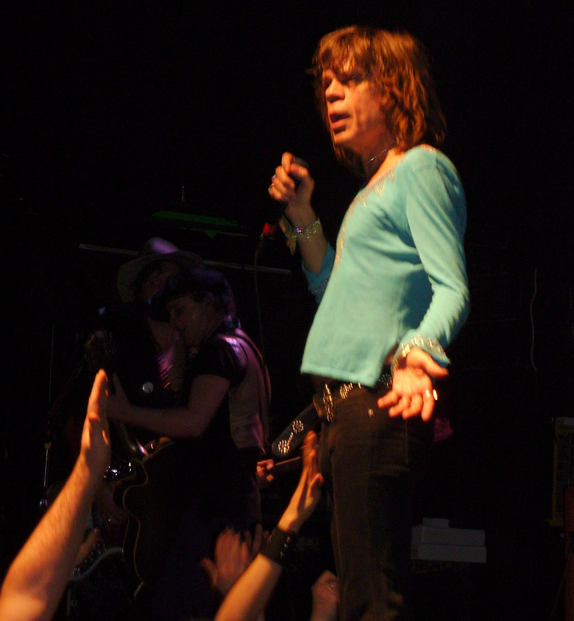 Photo at NY Dolls concert, 2008